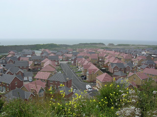 Housing in old quarry workings, Rhoose, South Wales. New housing estate in the quarry at Rhoose. Rhoose Point behind, Southernmost point in Wales.